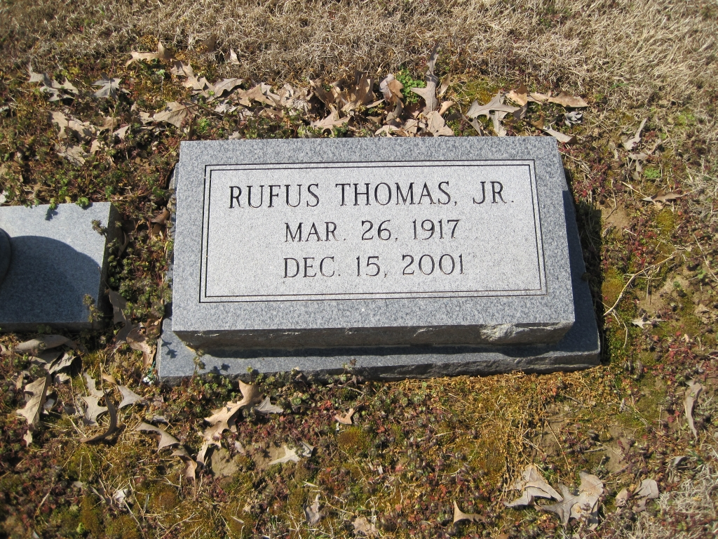 Grave of Rufus Thomas at New Park Cemetery in Memphis, Tennessee.